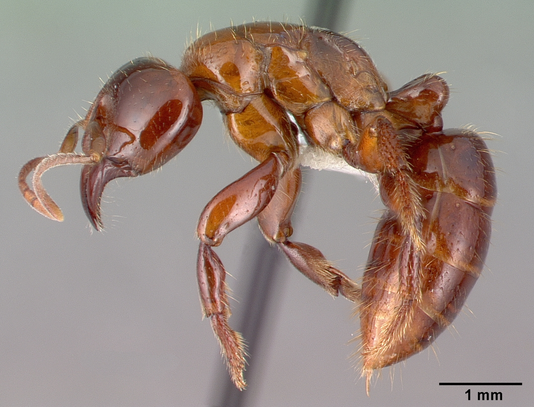 Profile view of ant Centromyrmex alfaroi specimen casent0010795.